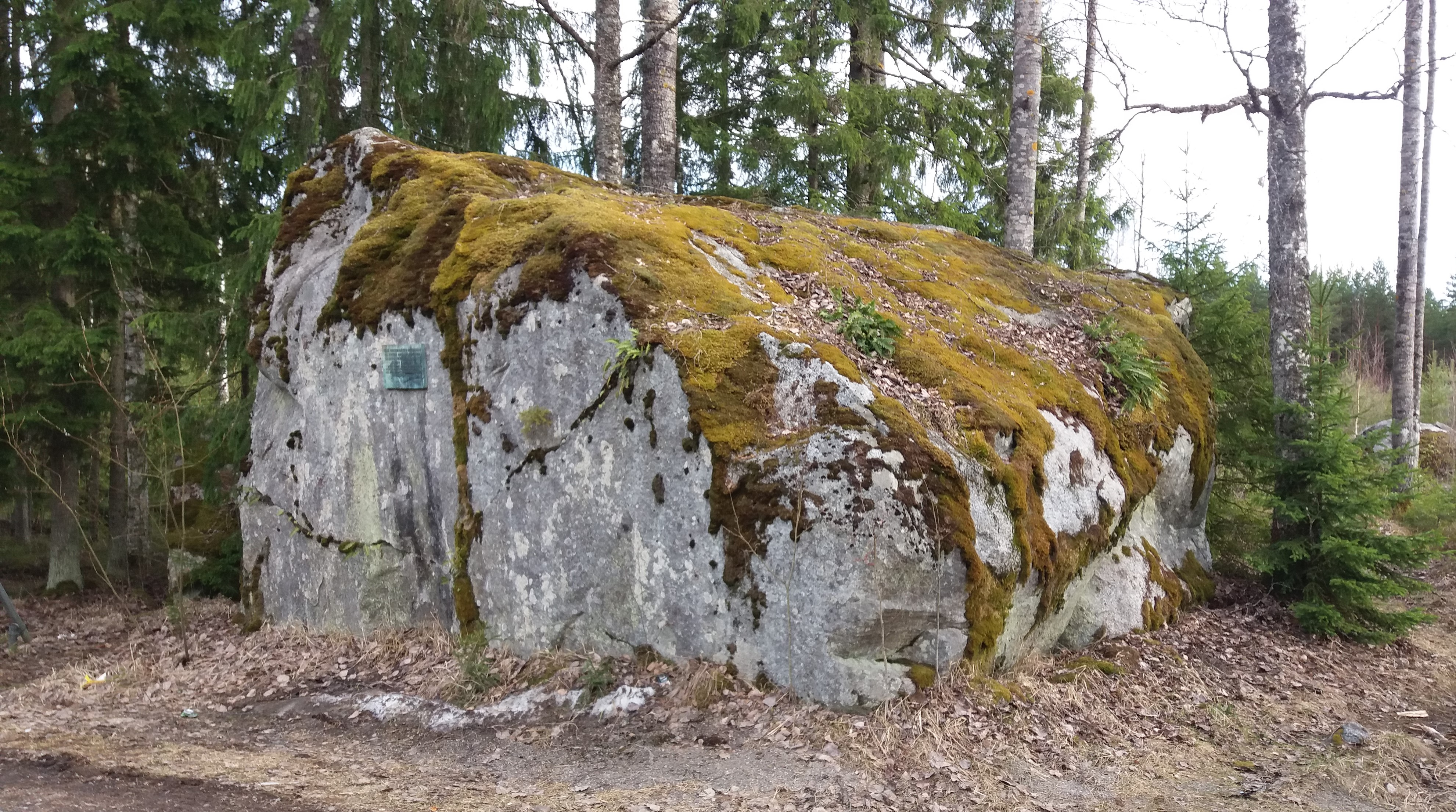 Halkivahankivi is the Medieval boundary stone of Huittinen, Kokemäki and Köyliö in the Satakunta region, Finland.